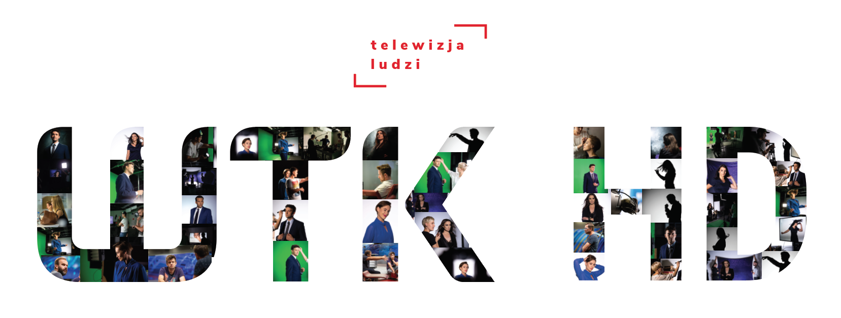 logo television WTK